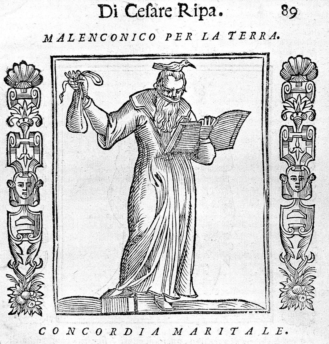 Man reading with a bag of earth, corresponding to temperament based on melancholic humour. Part of a set of figures representing the four temperaments, (It. 'complessioni') determined by the four humours, and showing their affinities with the elements. Rare Books Keywords: 17th century; choleric; humours; temperaments